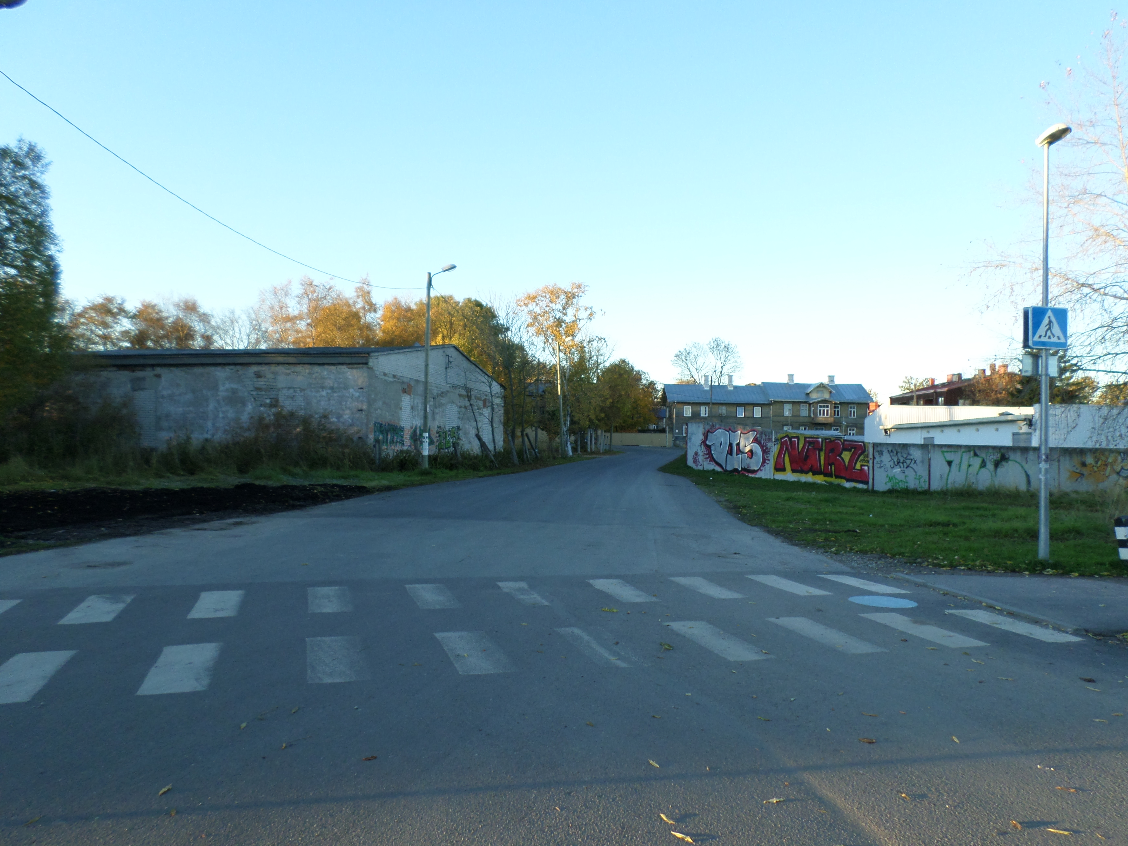 Oda tänav, Tallinn